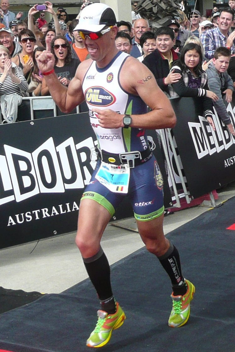 Frederik van Lierde, 3rd, 2012 Ironman Melbourne